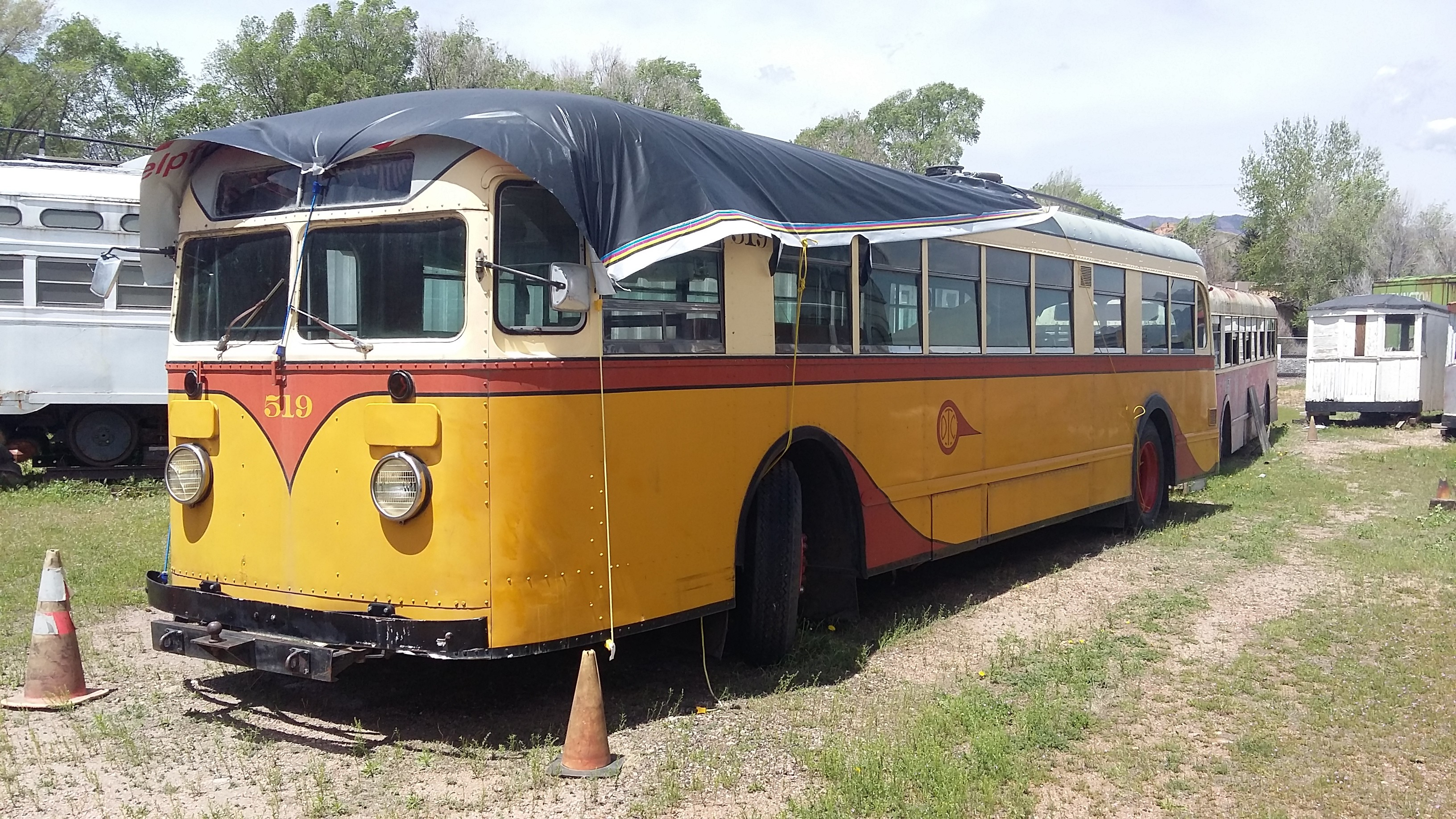 DTC Electric Trolley Bus No. 519 at the Colorado Springs & Interurban Railway museum